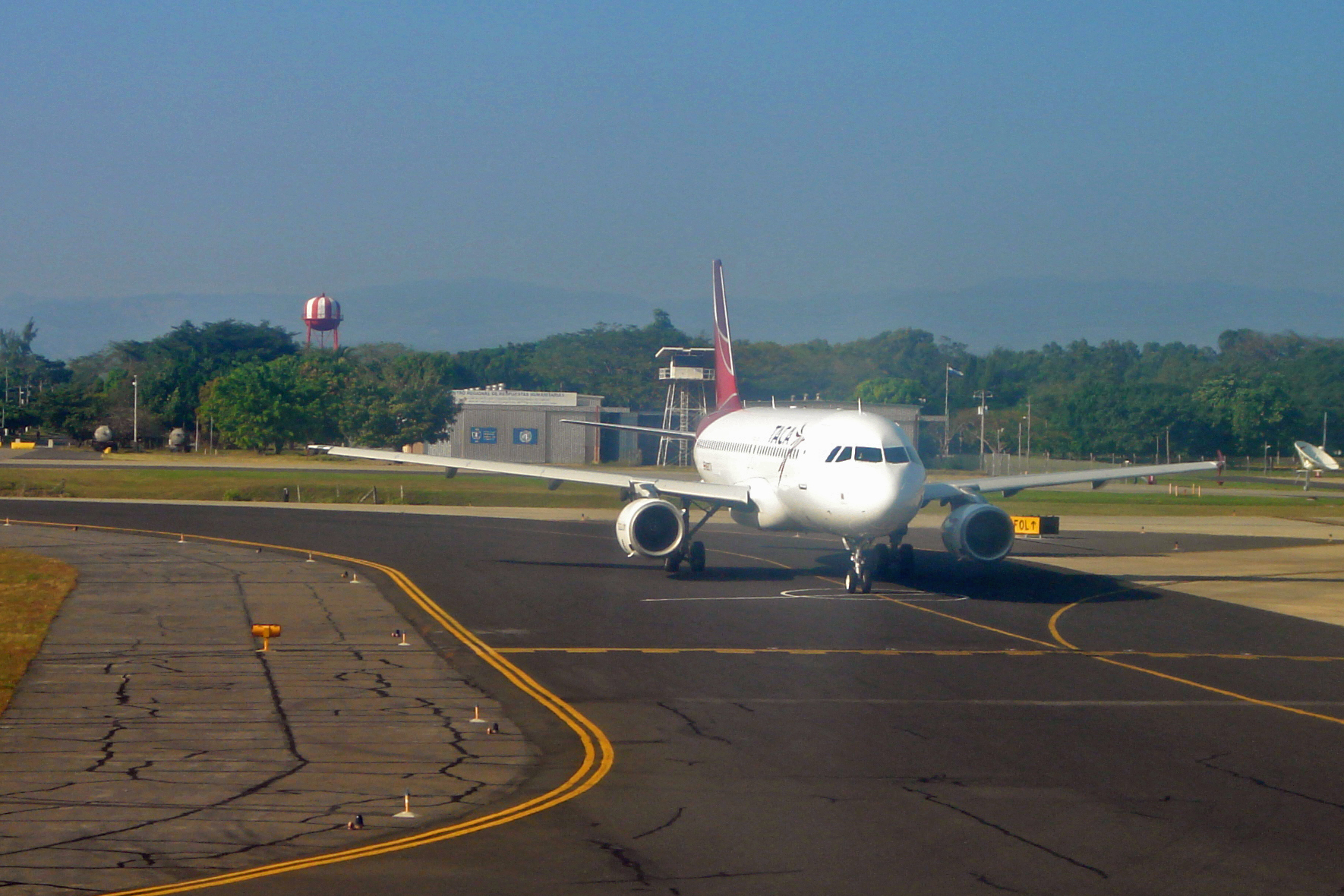 TACA Airbus (LACSA Costa Rica flag) taxing for take off at Cuscatlan International Airport (SAL), Comalapa, El Salvador